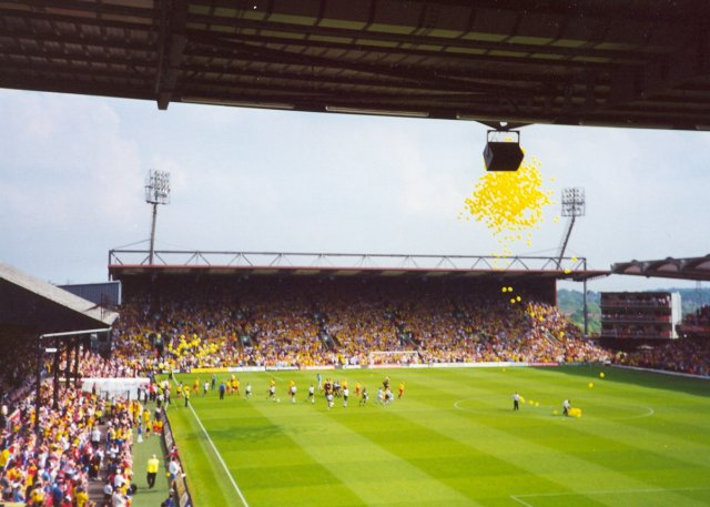 Watford v Coventry at Vicarage Road, Watford, Herfordshire, UK, of the last day of the Football Cup season